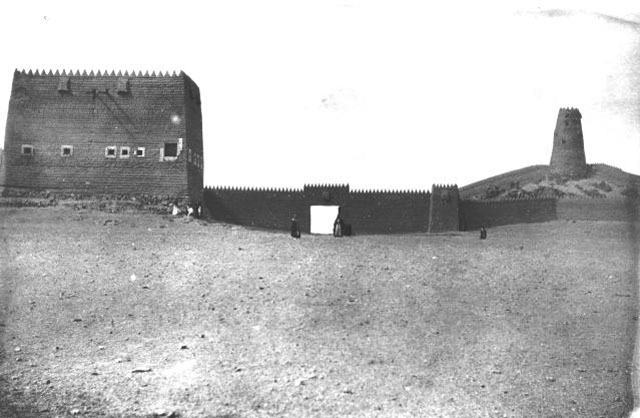 Gates of Ha'il city, 1914, taken by Gertrude Bell (1868 – 1926)